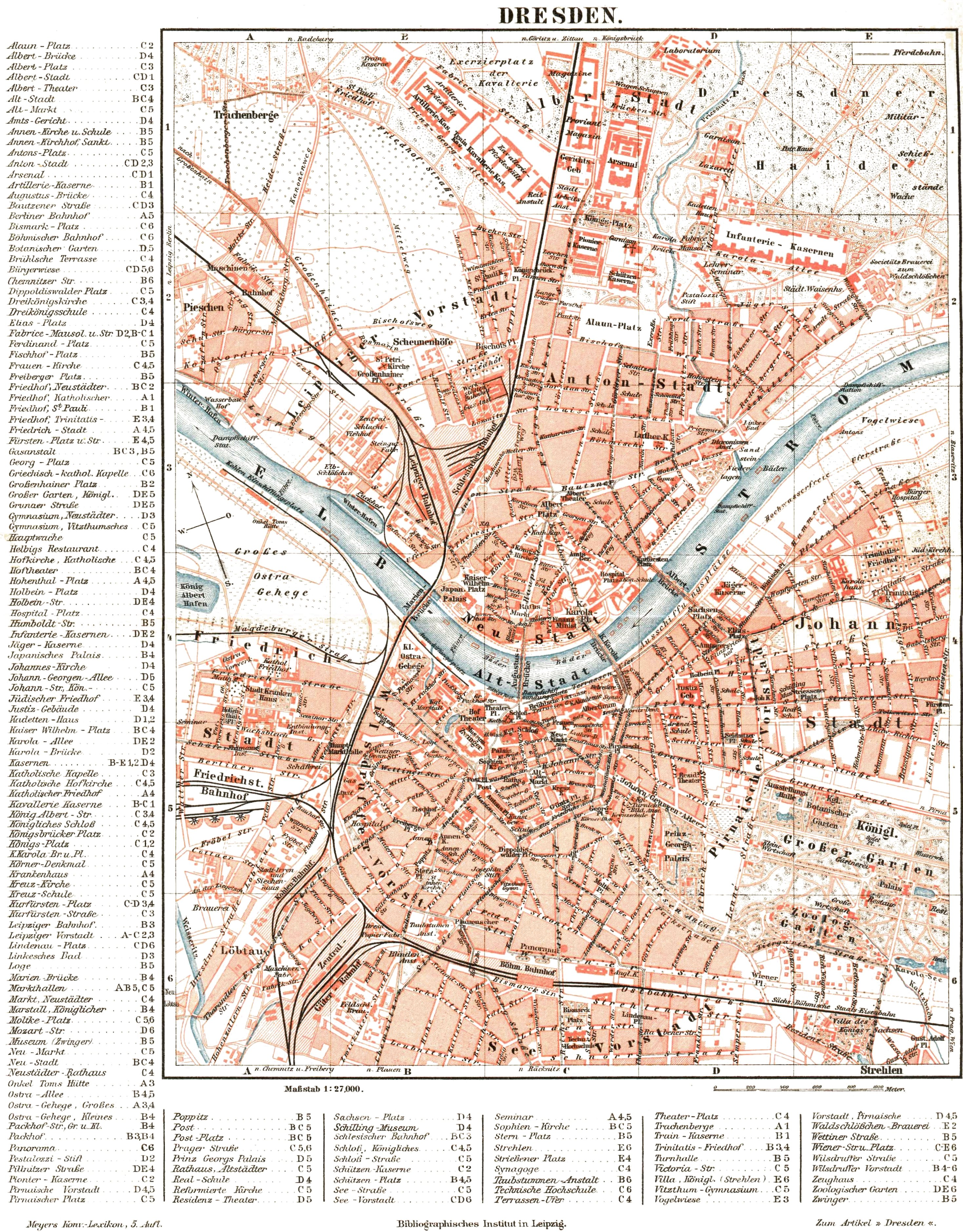 Map of Dresden, about 1895.